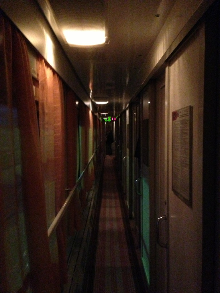 Boarded train 362 the Irkutsk to Ulaanbaatar service in Ulan-Ude. Ended up having the room to myself. The rest of the car was occupied by a tour group with Tucan Travel.